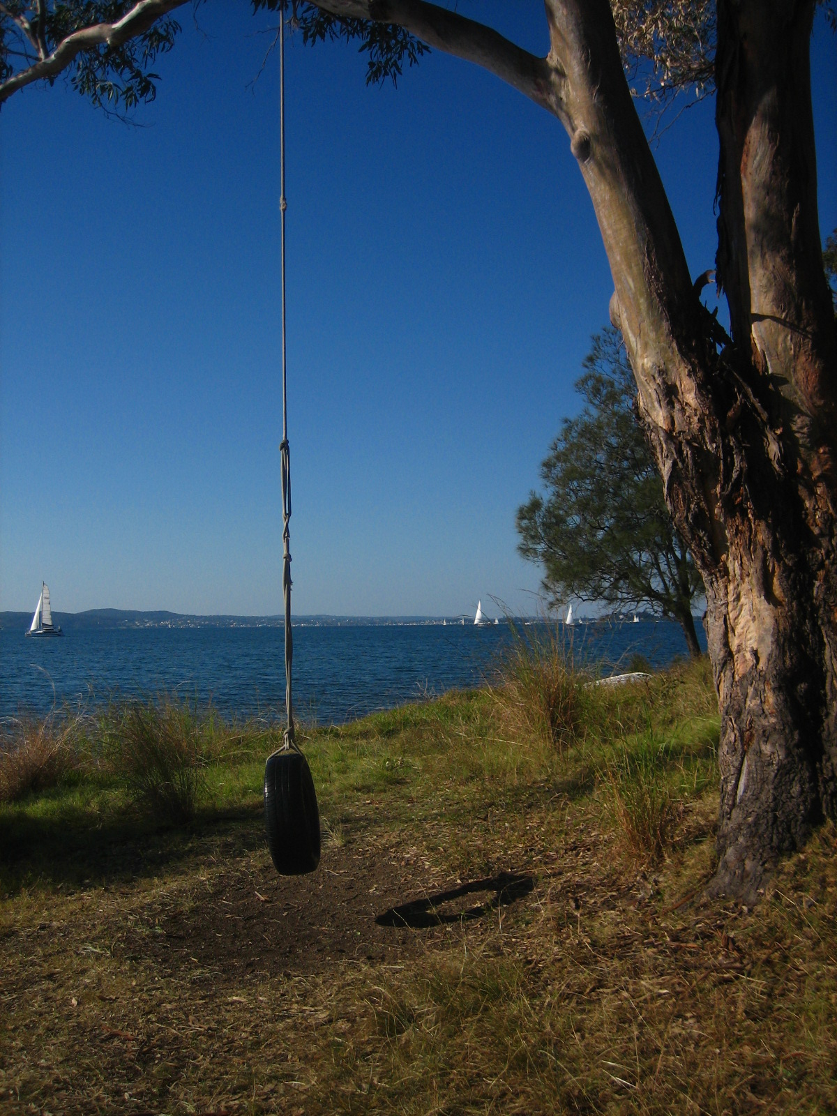 I took this photo myself in July, 2006